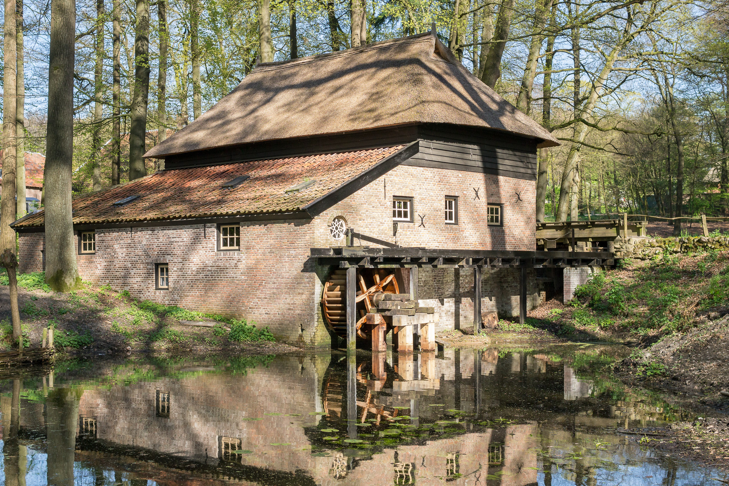 Papermill